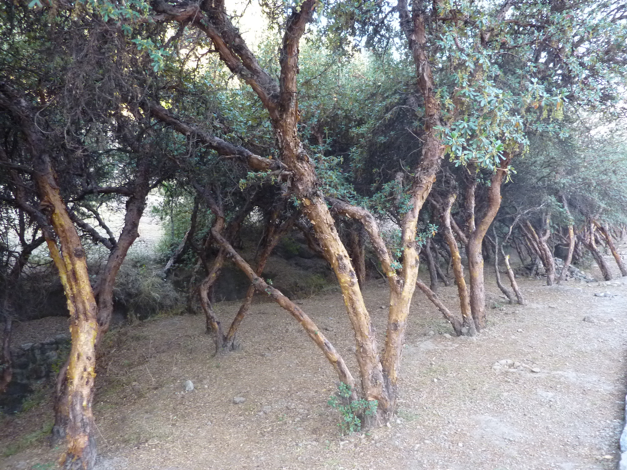 Polylepis inkana near Cusco, Peru